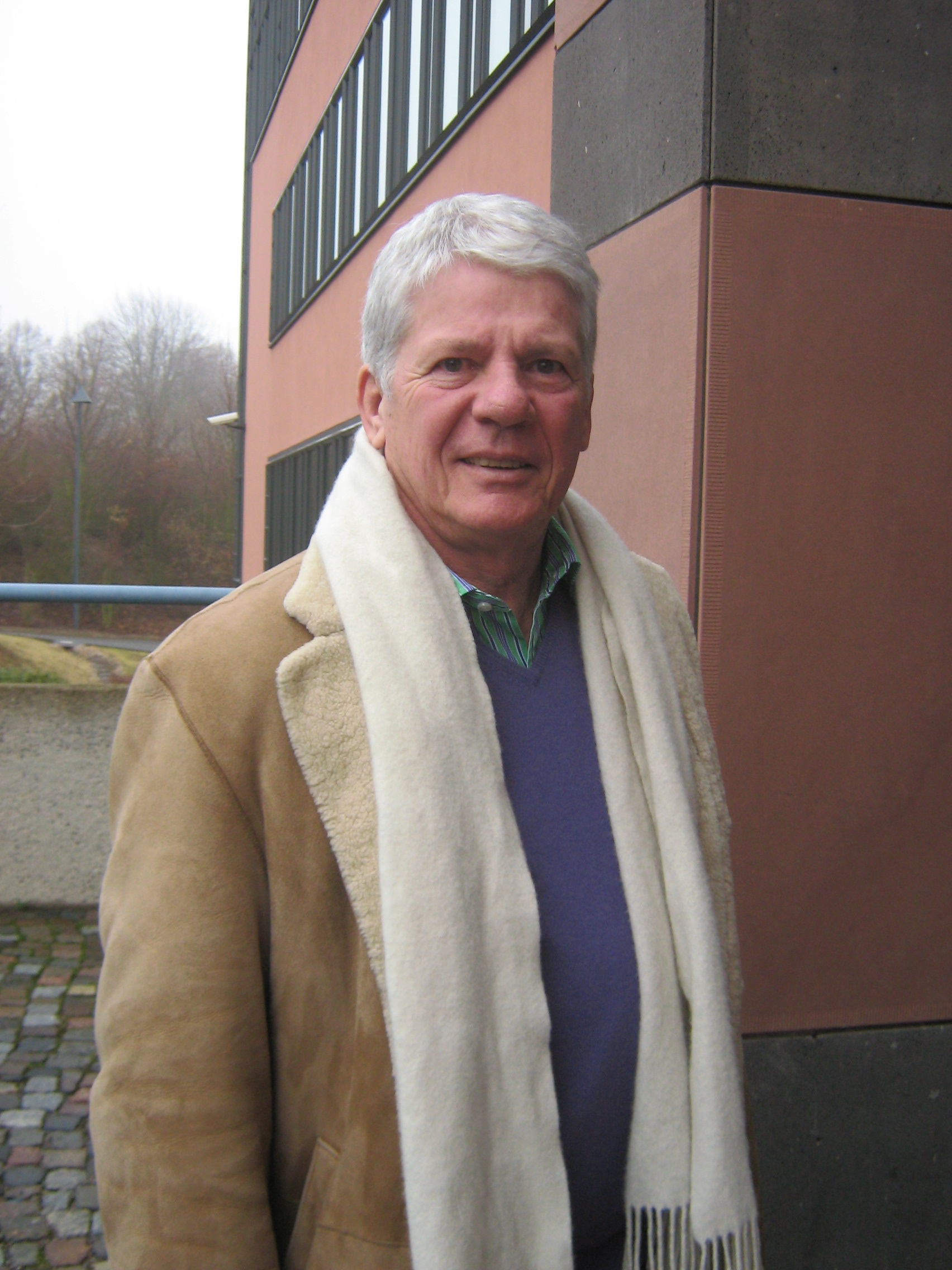 Thomas M. Stein